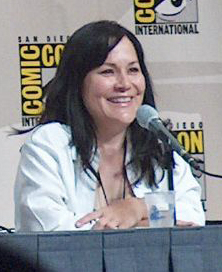 Carolyn Omine at a San Diego Comic-Con panel for The Simpsons.